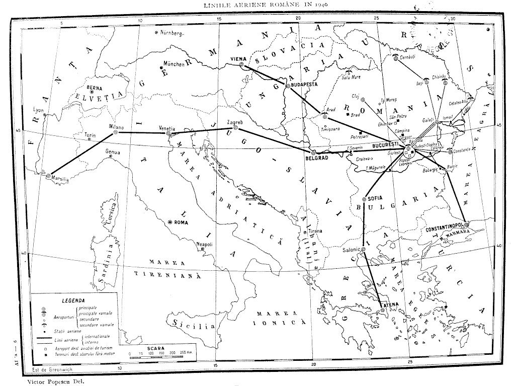 L.A.R.E.S. in 1940